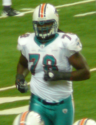 If used somewhere other than Wikipedia, Nelson, by name.